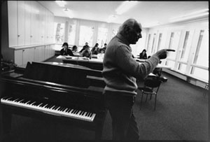 Norbert Moret